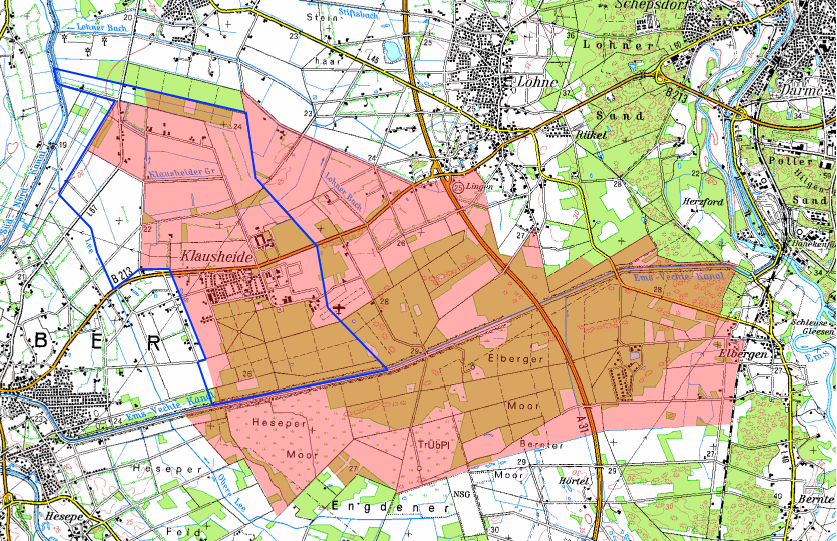 Area of the estate Klausheide (Clausheide), Lower Saxony, in 1914; border of the district Klausheide